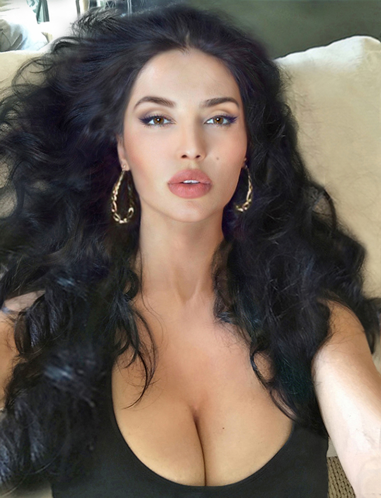 Portrait of Brenda Venus